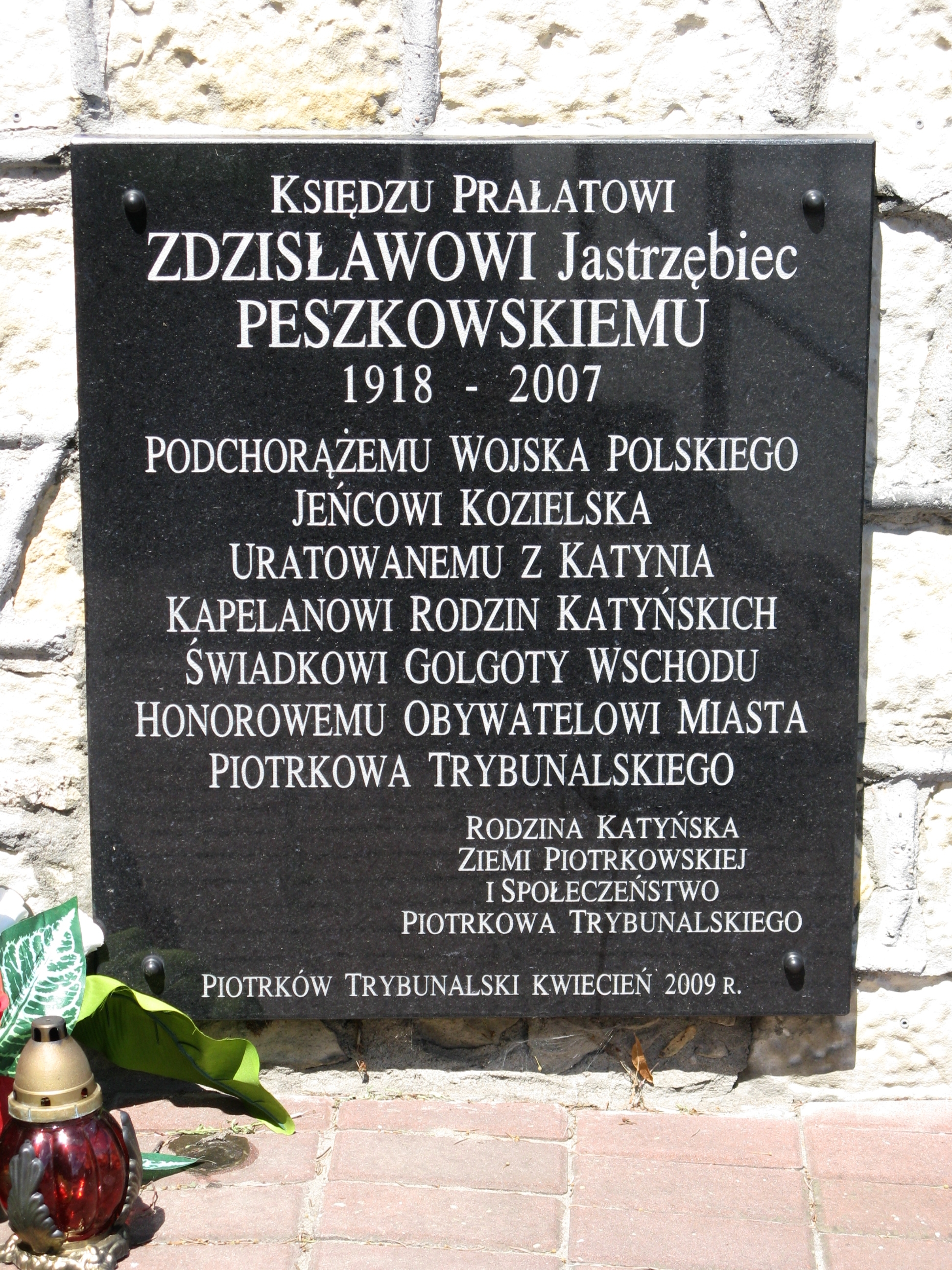 Plaque to Zdzisław Peszkowski, Piotrków Trybunalski